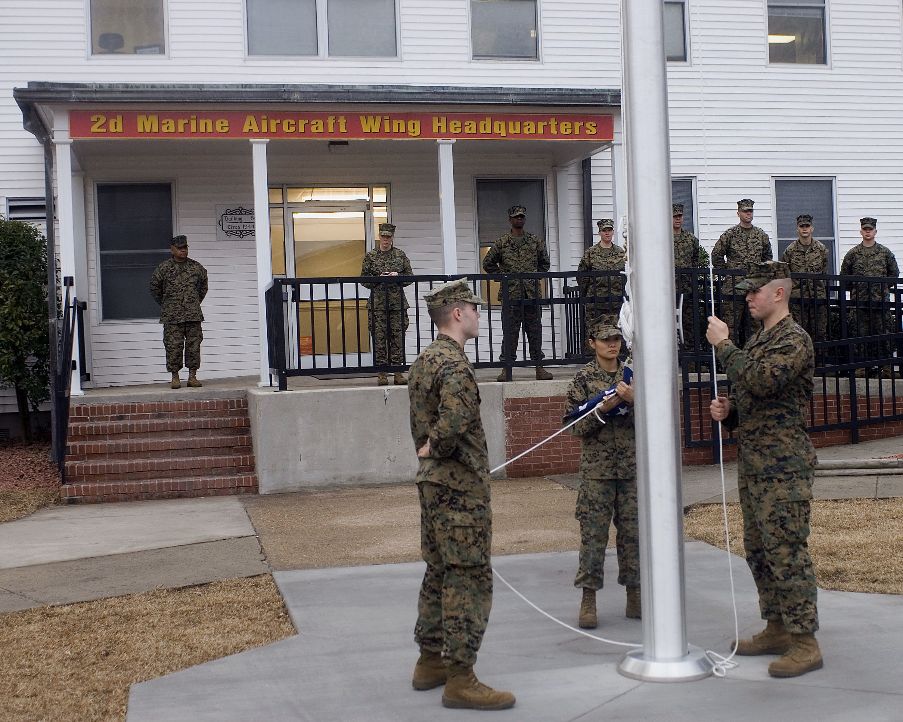 CHERRY POINT, N.C. (Jan. 11, 2008) Cpl. Joseph Longo, Sgt. Bernadine Toledo, and Cpl. Scott Waligora, assigned to Marine Wing Headquarters, Squadron 2, prepare to raise the American flag for the first time over the new 2nd Marine Aircraft Wing Headquarters building at Marine Corps Air Station Cherry Point. U.S. Marine Corps photo by Lance Cpl. David J. Blake (RELEASED)